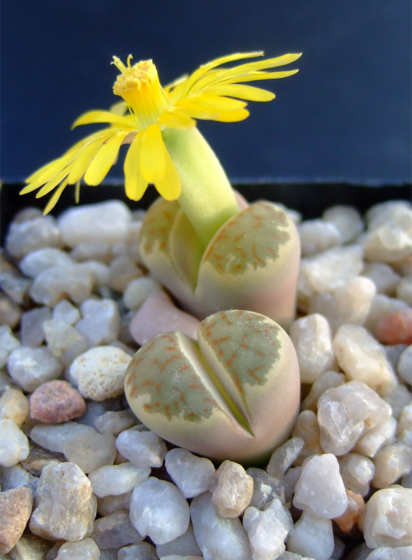 Lithops dorotheae (C 124)